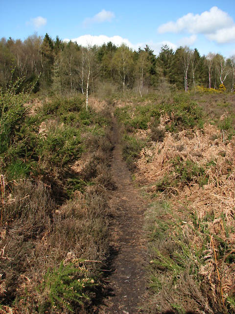 Heathland and woodland This path is part of a circular walk through Marsham Heath, passing through meadows, heathland, woodland and farmland. Cawston and Marsham Heath were designated a Site of Special Scientific Interest in 1986 .